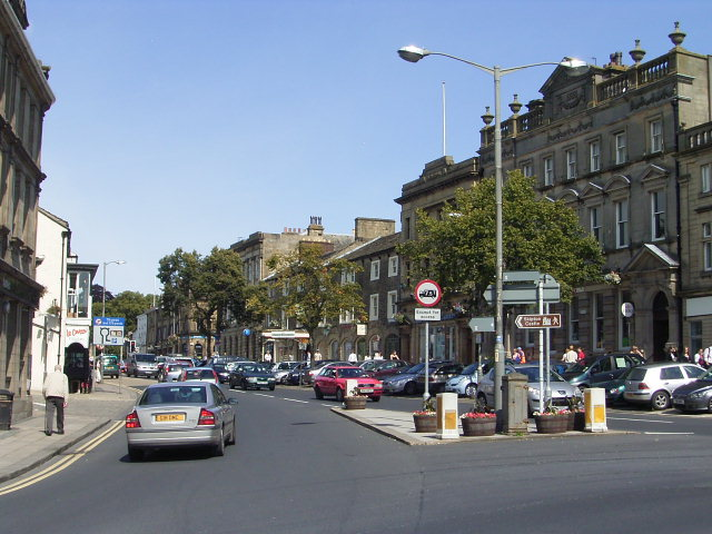 High Street, Skipton